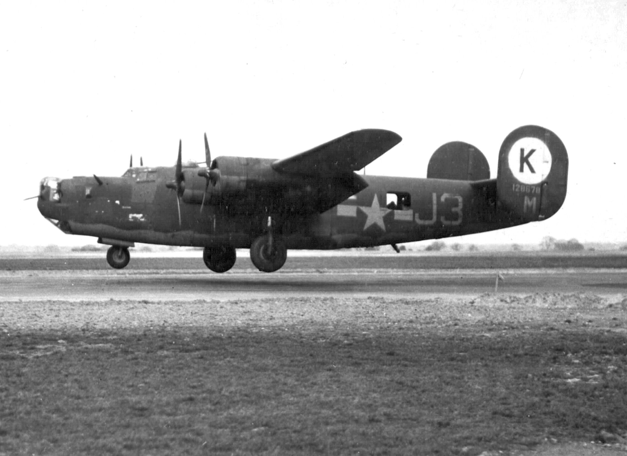 Douglas-Tulsa B-24H-10-DT Liberator s/n 41-28678 755th Bomb Squadron, 458th Bomb Group, 8th Air Force. Aircraft was lost due to mechanical failure on the March 22,1944 mission to bomb the BMW engine factory at Basdorf outside Berlin,Germany. Eight of the crew became POW's and one was killed because he didn't have the right type of harness for his parachute and went down with the plane.